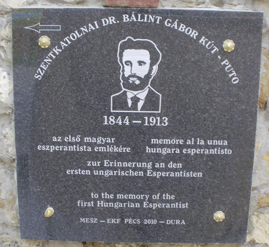 Plaque of Gábor Bálint in Pécs, Hungary